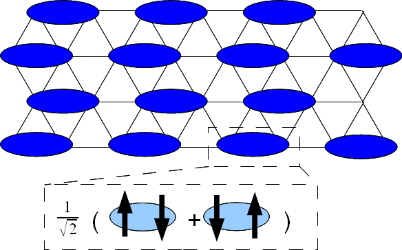 valence bonds on a triangular lattice in a valence bond solid